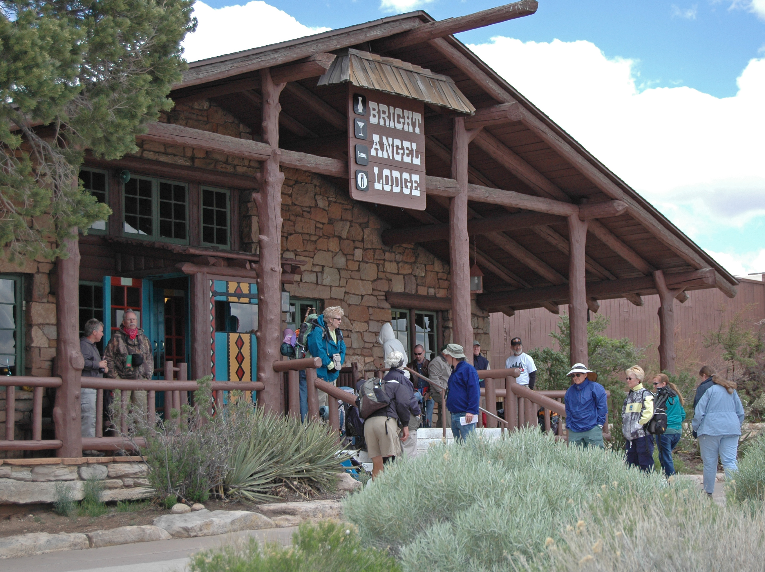 Bright Angel Lodge, main building — in Grand Canyon Village, South Rim of the Grand Canyon, Grand Canyon National Park, Arizona. The 1935 lodge complex, designed by Mary Jane Colter in the Rustic style, is within the Grand Canyon Village Historic District, on the National Register of Historic Places in Grand Canyon National Park.